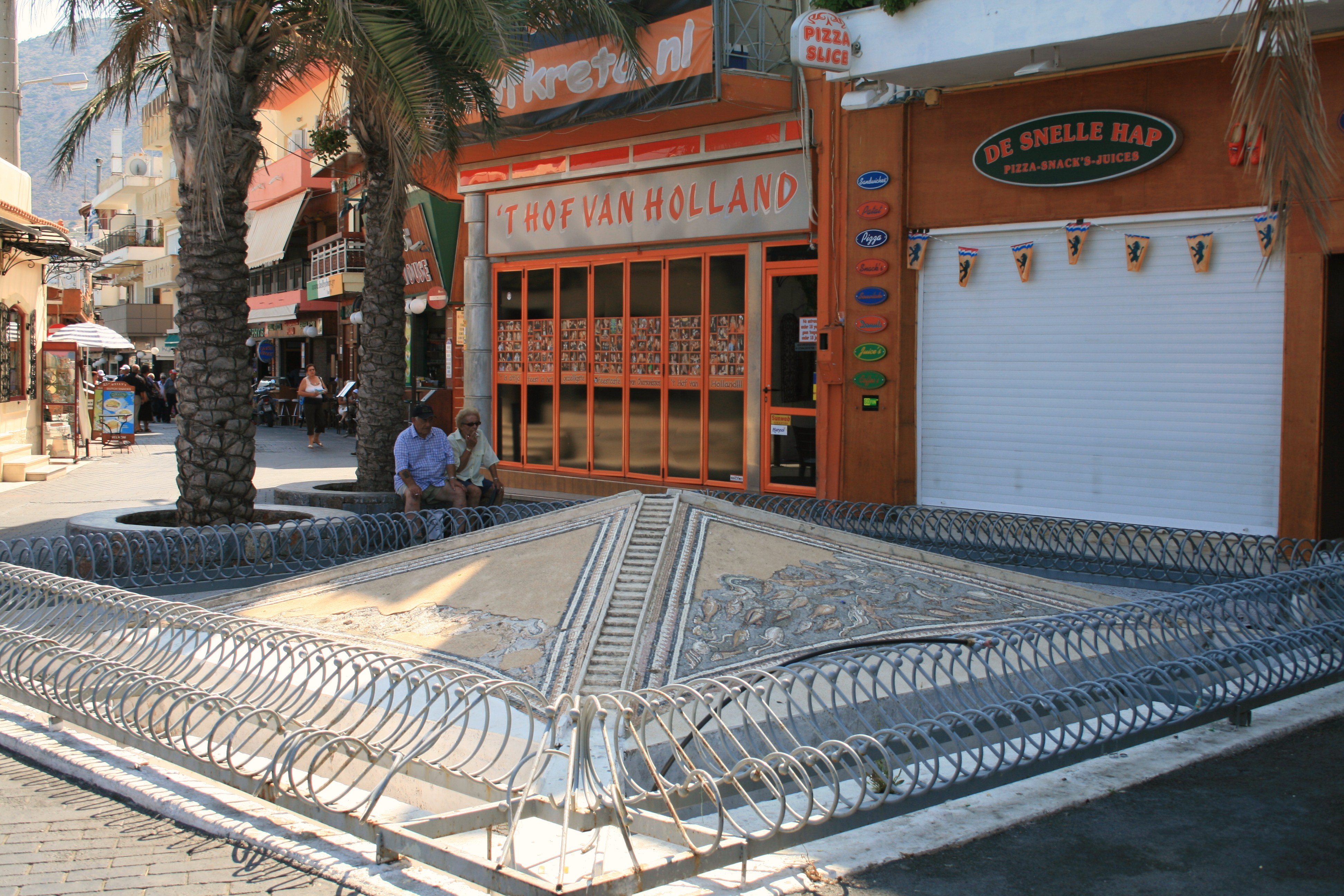 A fountain with a mosaic in the town of Hersonissos (Crete, Greece) preserved from antiquity